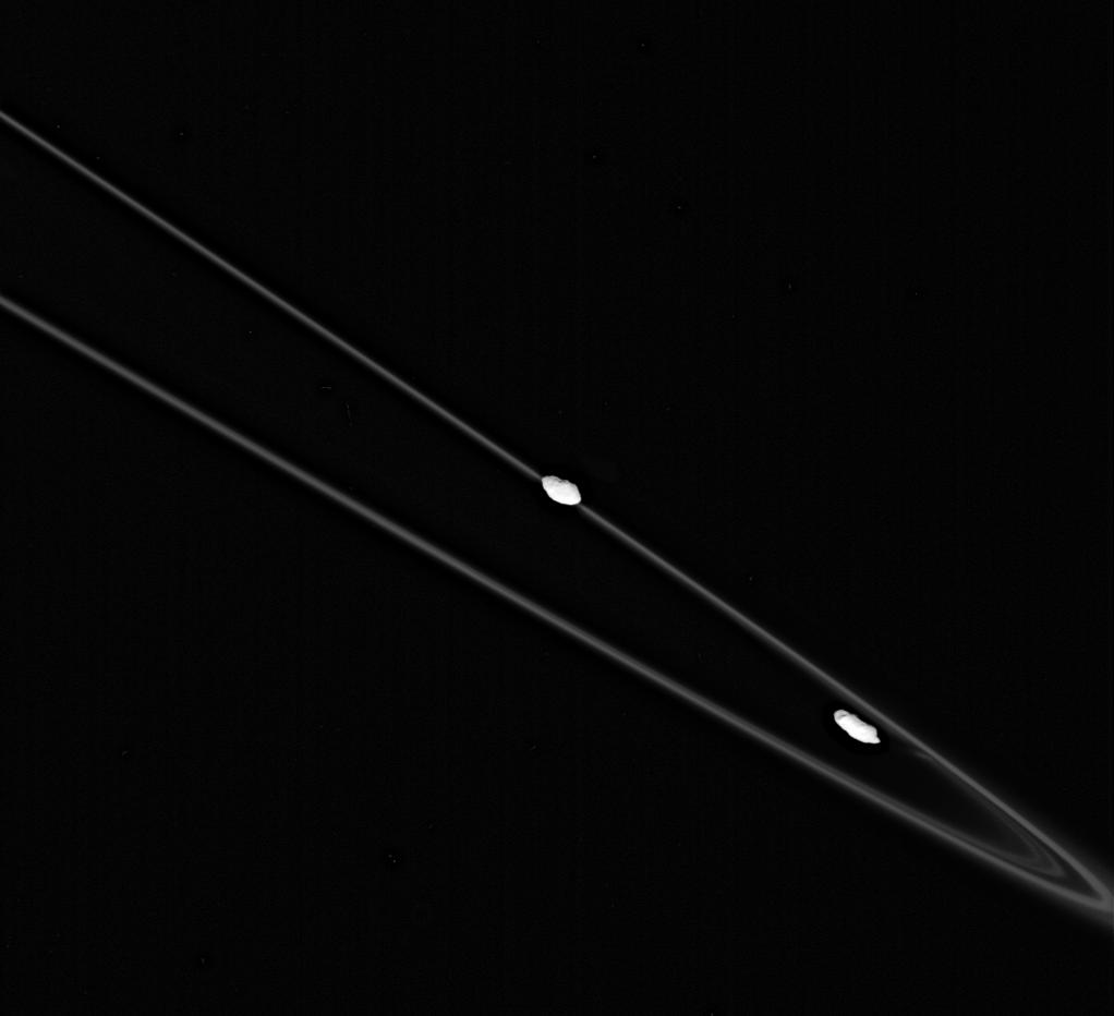 This spectacular image shows Prometheus (at right) and Pandora (at left), with their flock of icy ring particles (the F ring) between them. Pandora is exterior to the ring, and closer to the spacecraft here. Each of the shepherd satellites has an unusual shape, with a few craters clearly visible. The effect of Prometheus (102 kilometers, or 63 miles across) on the F ring is visible as it pulls material out of the ring when it is farthest from Saturn in its orbit. Pandora is 84 kilometers (52 miles) across. The image was taken in polarized green light with the Cassini spacecraft narrow-angle camera on Oct. 29, 2005, at a distance of approximately 459,000 kilometers (285,000 miles) from Pandora and 483,500 kilometers (300,500 miles) from Prometheus. The image scale is 3 kilometers (2 miles) per pixel on Pandora and 3 kilometers (2 miles) per pixel on Prometheus. The view was acquired from about a third of a degree below the ringplane. The Cassini-Huygens mission is a cooperative project of NASA, the European Space Agency and the Italian Space Agency. The Jet Propulsion Laboratory, a division of the California Institute of Technology in Pasadena, manages the mission for NASA's Science Mission Directorate, Washington, D.C. The Cassini orbiter and its two onboard cameras were designed, developed and assembled at JPL. The imaging operations center is based at the Space Science Institute in Boulder, Colo.